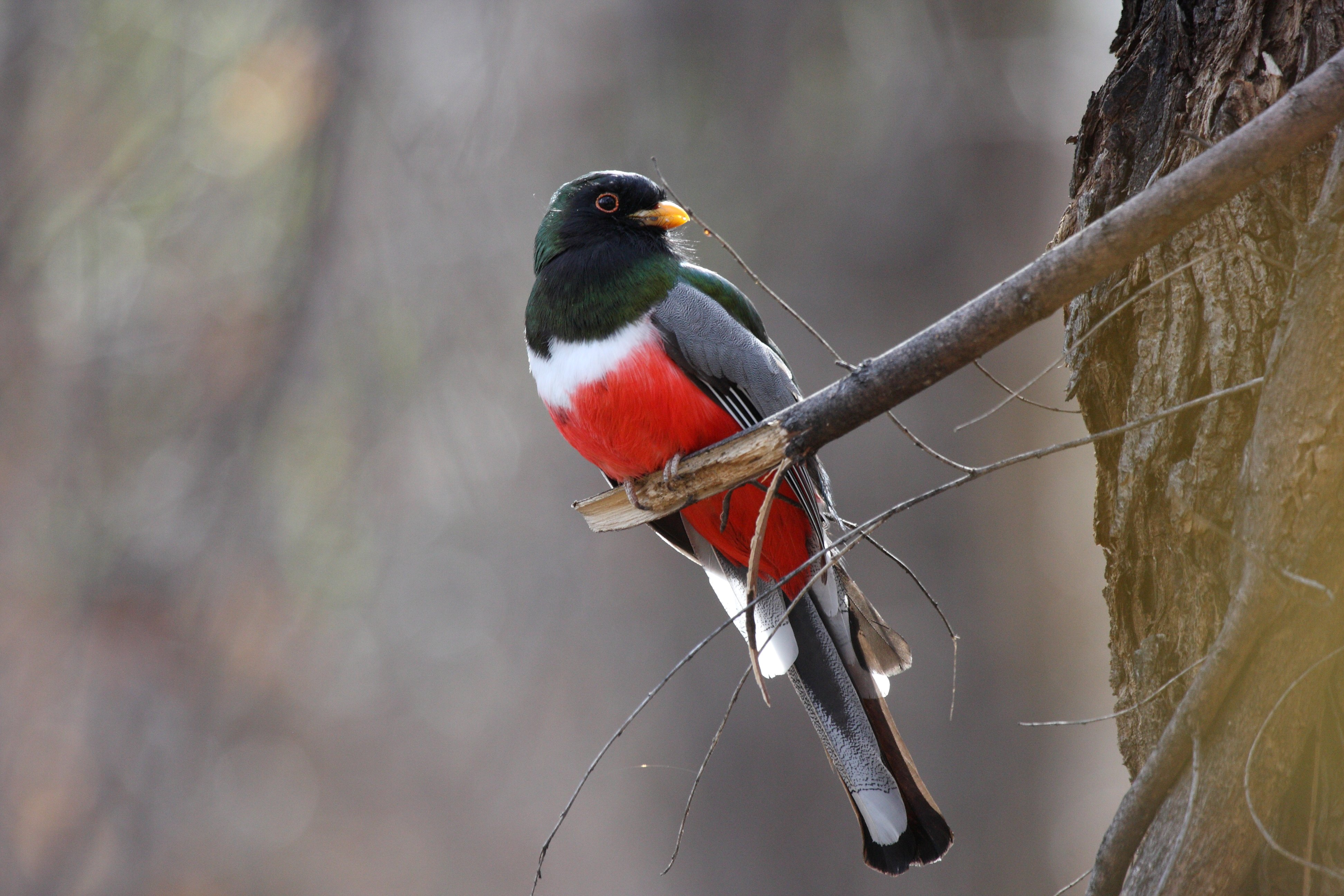 A male elegant trogon (Trogon elegans)